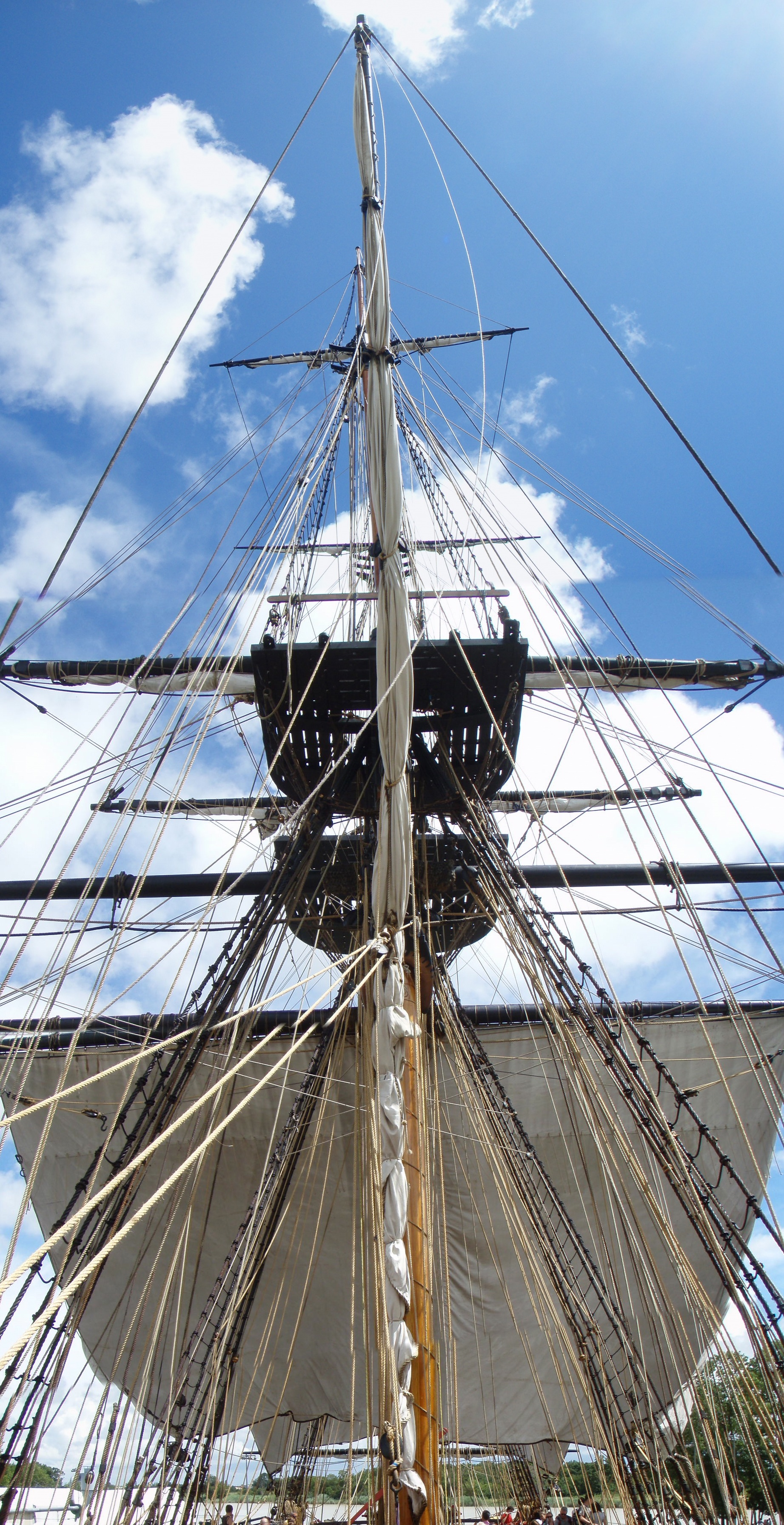 Hermione mast